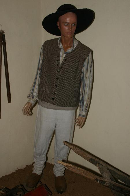 Farmer's clothing in Brittany in the 16. century. Photo from Poul-Fetan, a restored breton village.